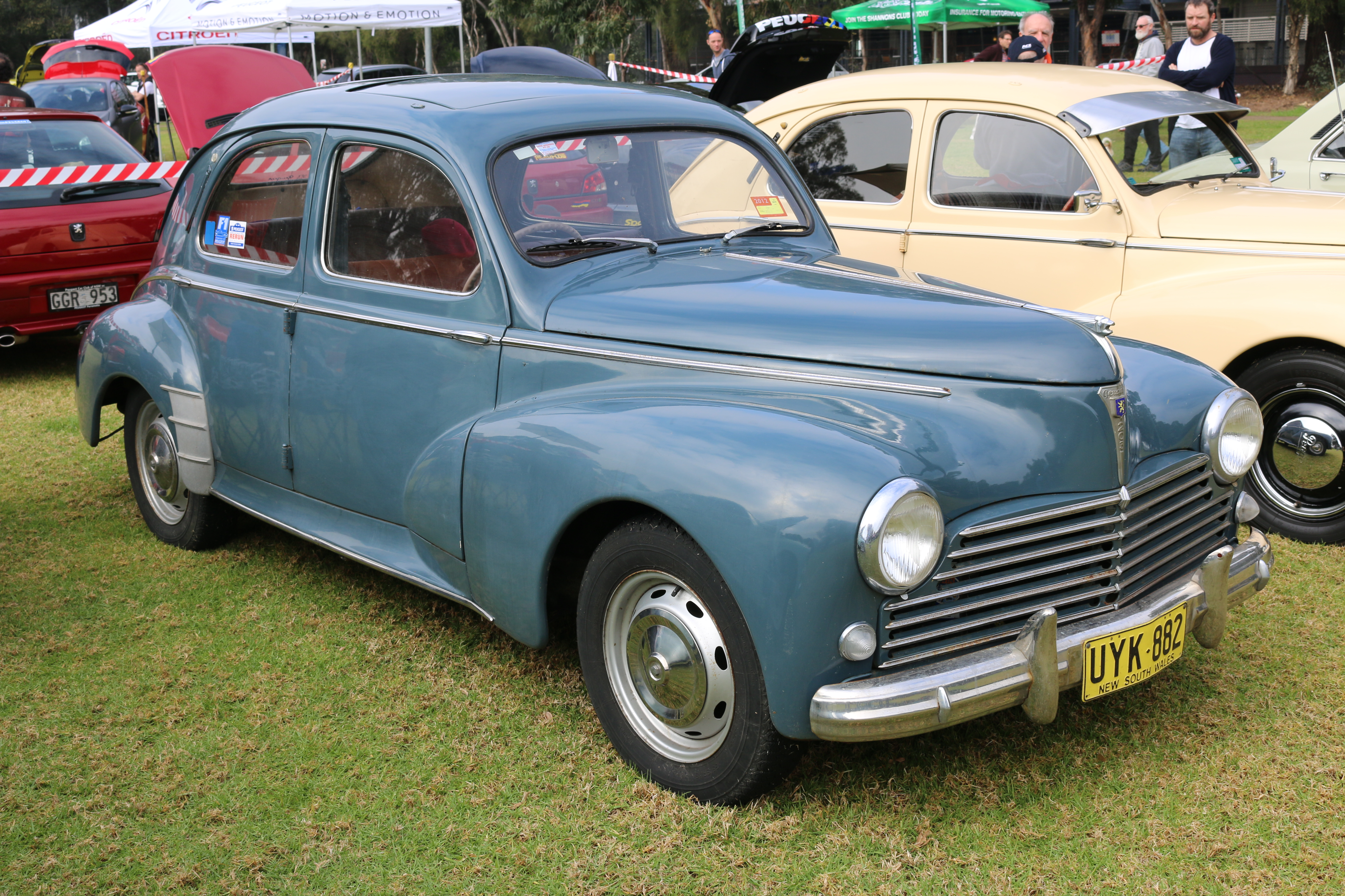 All French Day, Silverwater Park, NSW July 2016